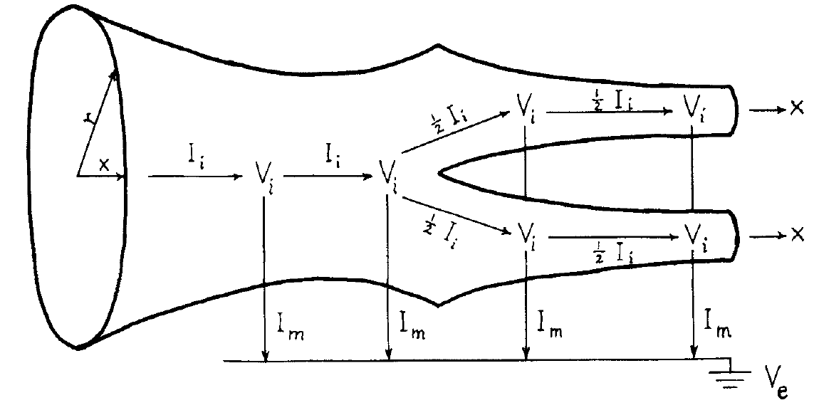 Denritic diagram indicates the relation between axial current, intracellular potentail, membrane current density and extracellular potential. Adapted from the Rall paper "Theory of physiological properties of dendrites"